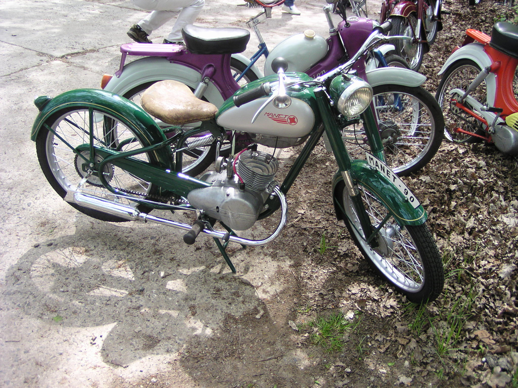 Motorcycle Manet M-90 (Veteran Rallye Krivonoska 2005)